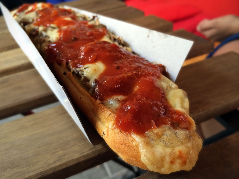 Photo of a classic Polish Zapiekanka